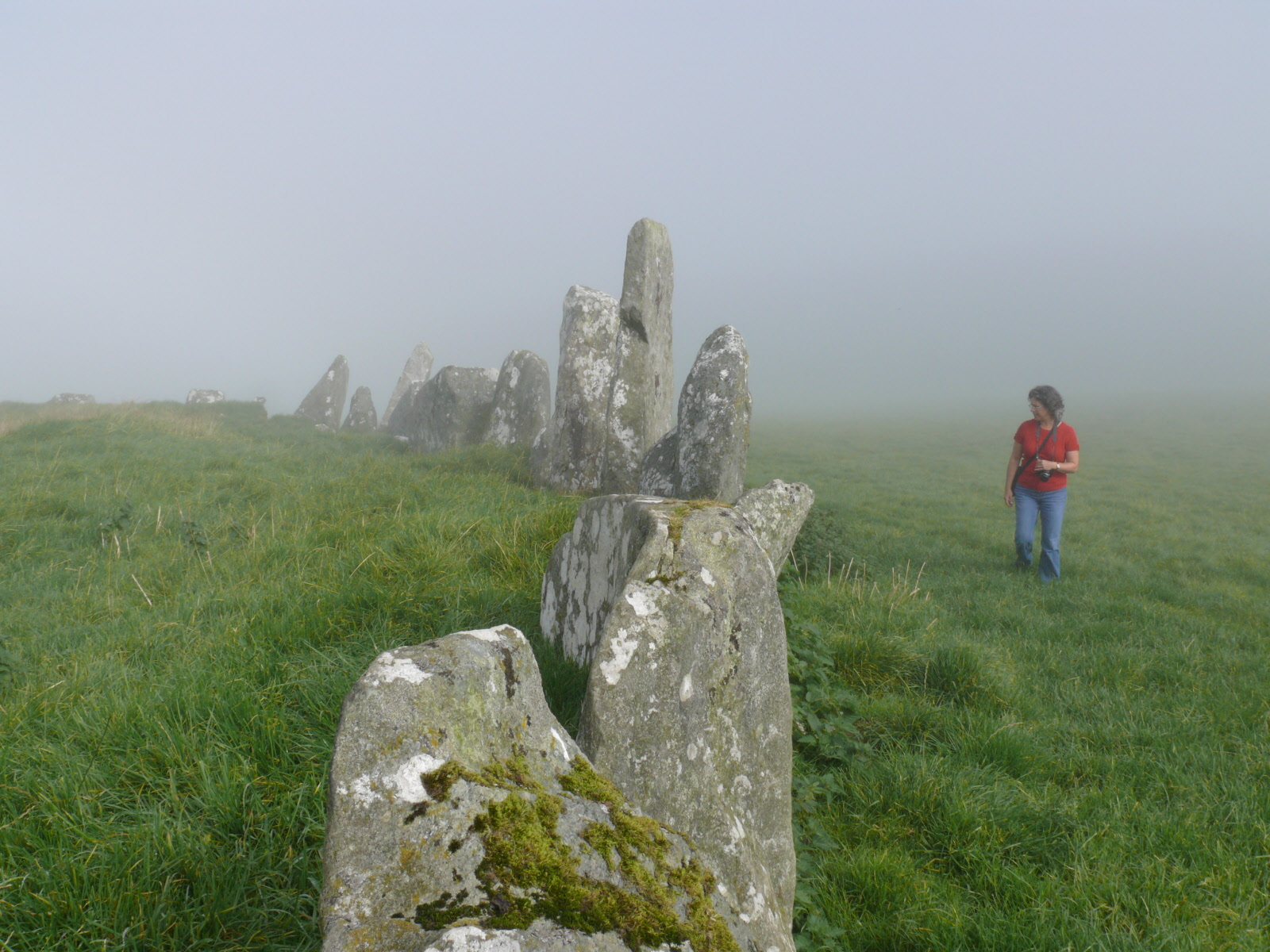 A portion of the Beltany Stone Circle, south of Raphoe, Ireland